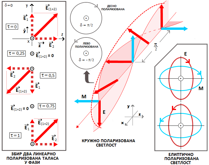 ПОЛАРИЗАЦИЈА СВЕТЛОСТИ